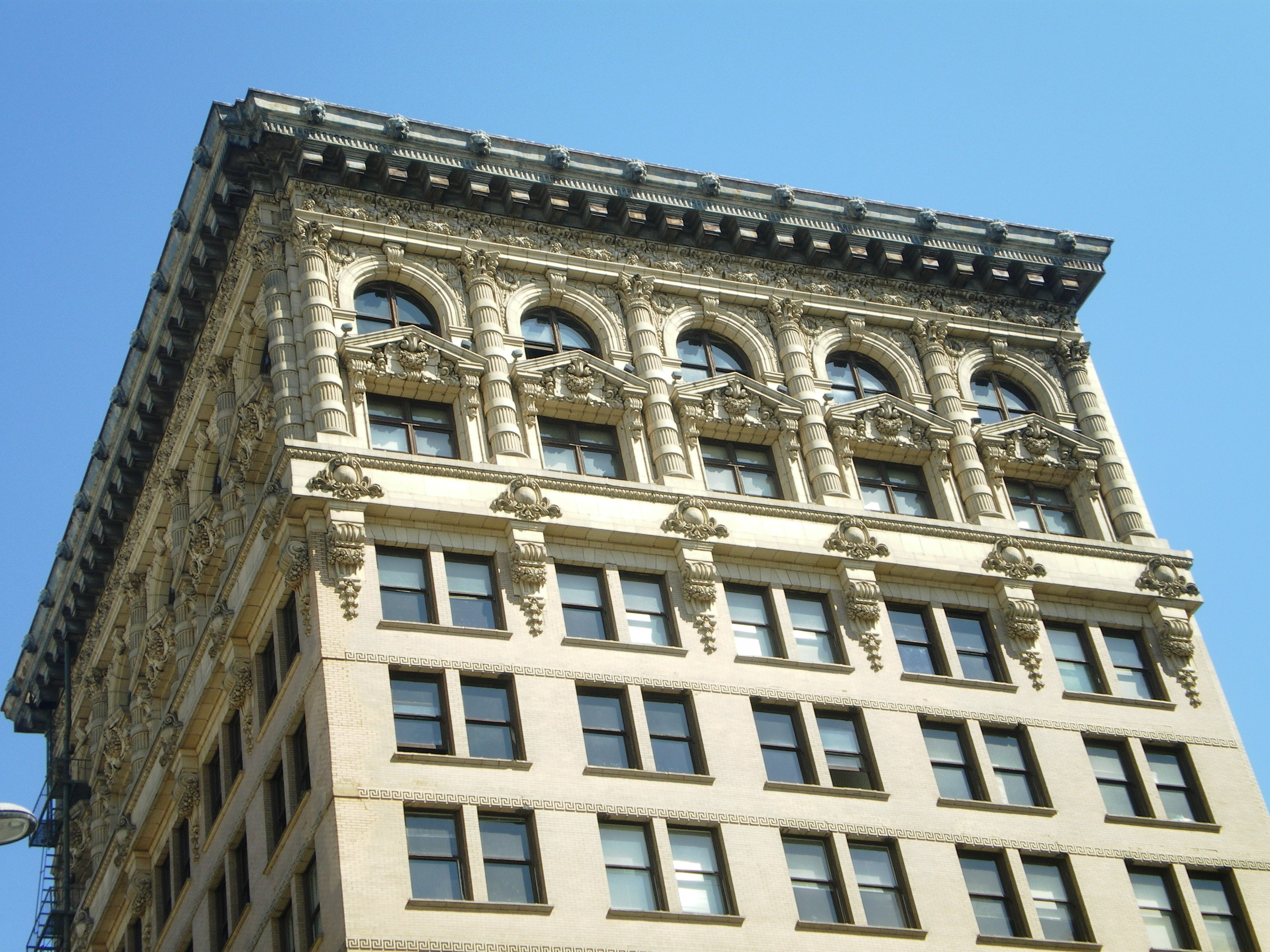 Building at 408 S. Spring St. (Upper Floors), Los Angeles, California (Spring Street Financial District)